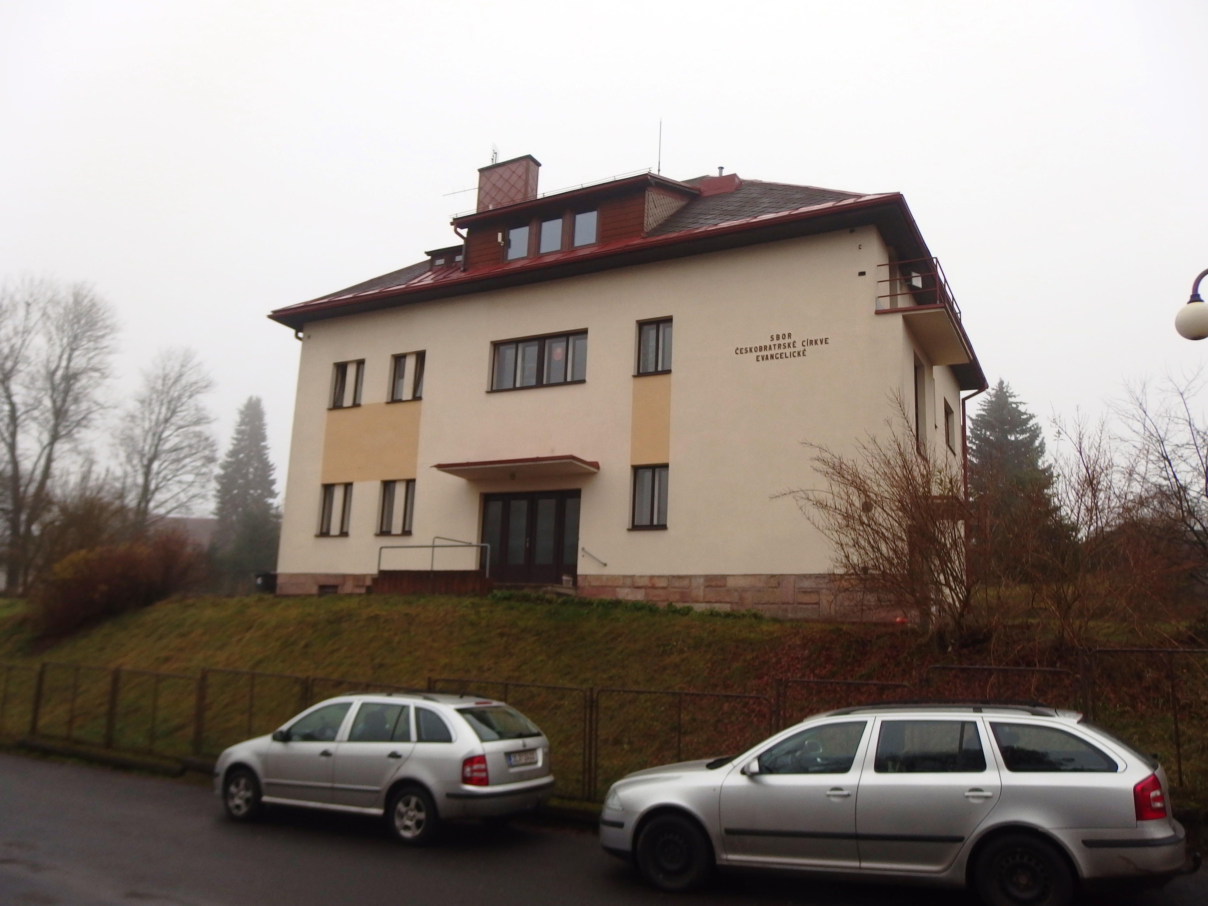 Jilemnice, Semily District, Czech Republic.